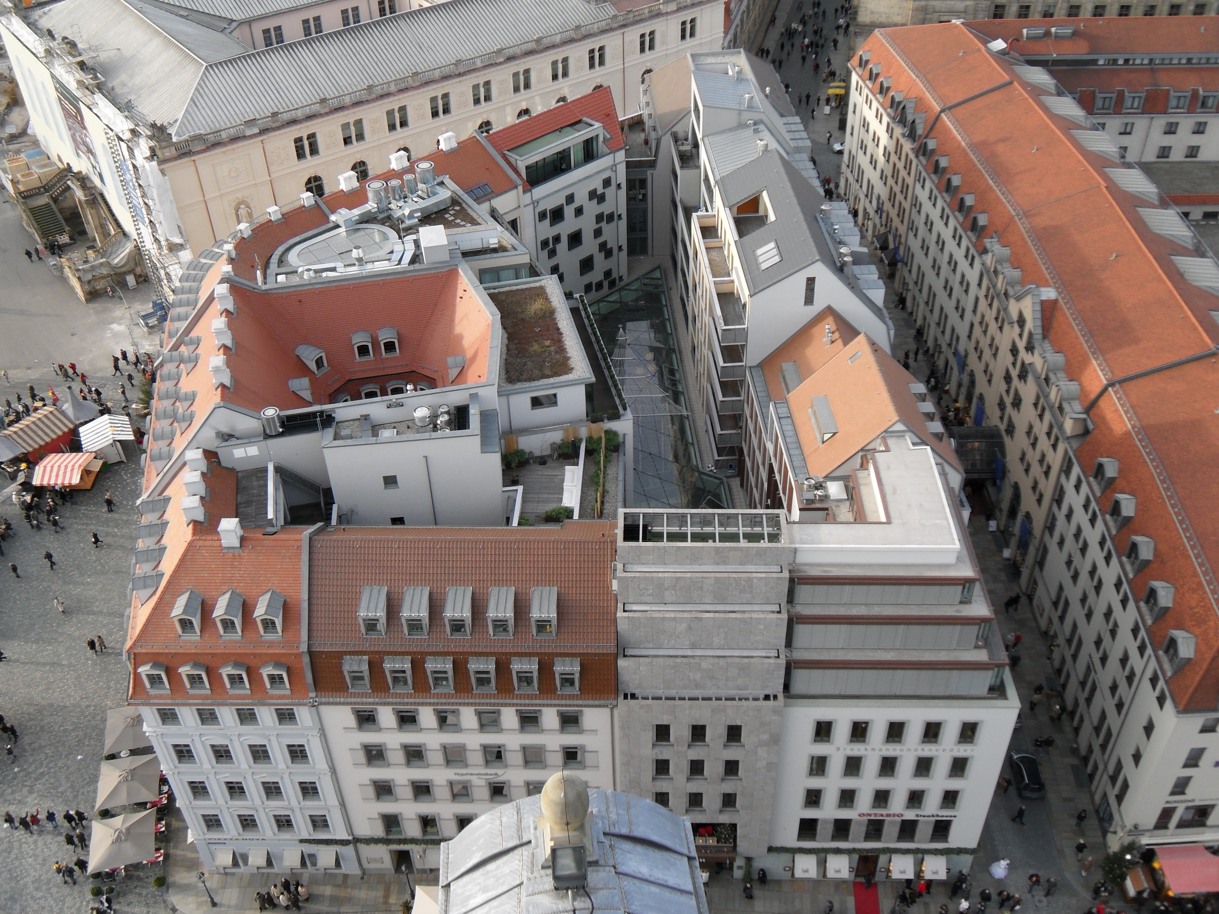 Quarter I of Neumarkt (Dresden), overview from Frauenkirche